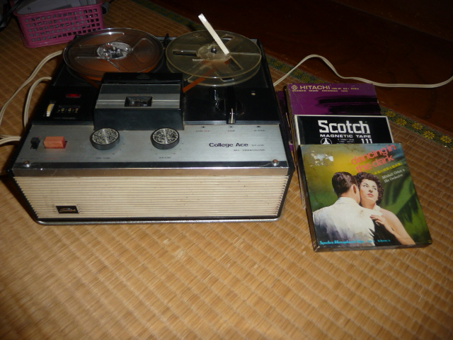 2-track open reel tape recorder by Toshiba